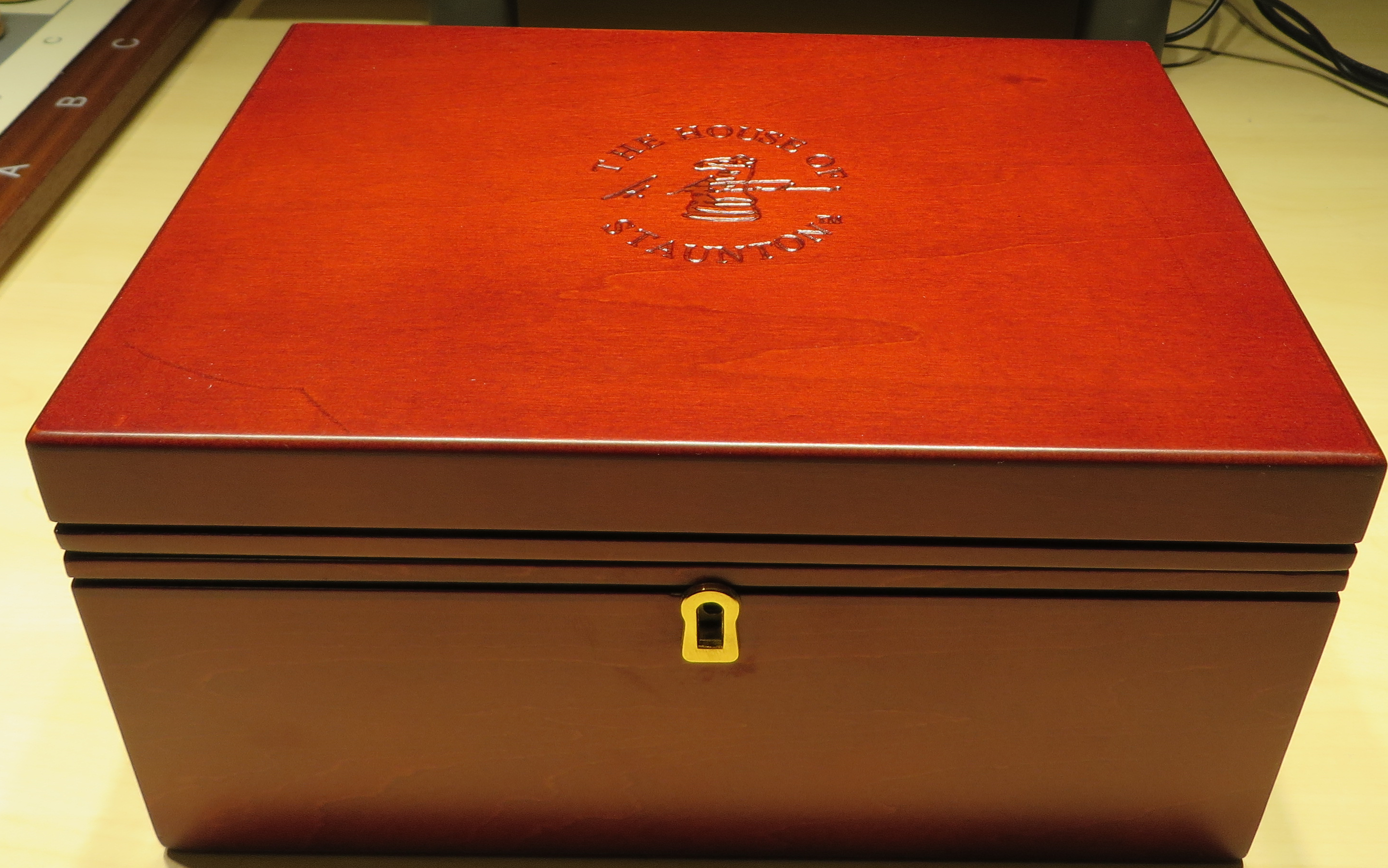 Image of a chess box.